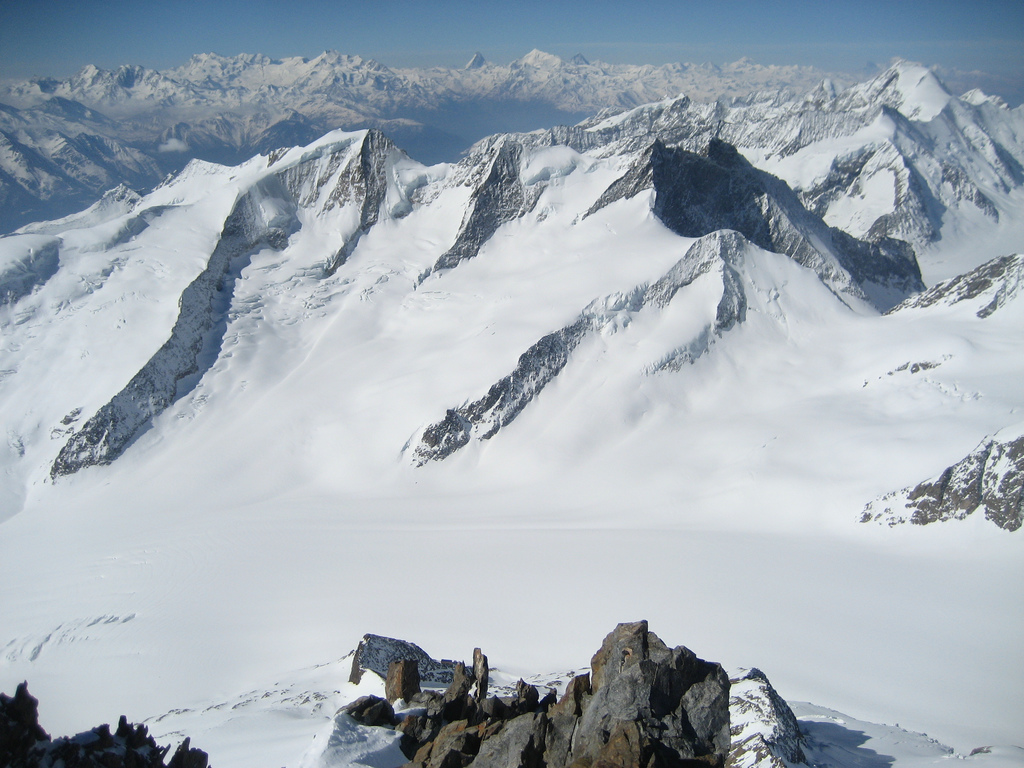 view from finsteraarhorn: wannenhorn, schönbielhorn, fiescher gabelhorn, chamm, grünhornlücke and above: aletschhorn and all the walliser alps...